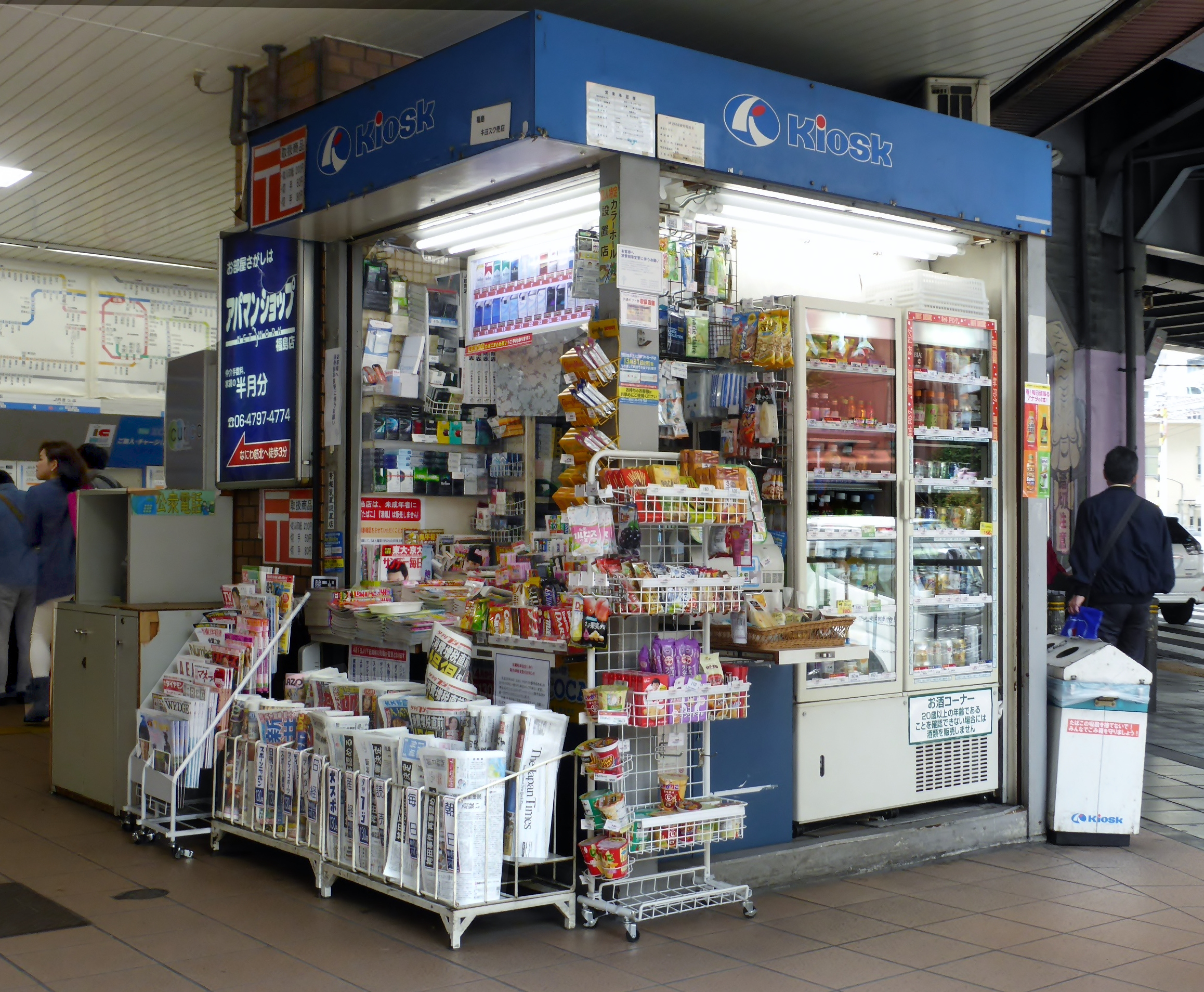 Kiosk at Fukushima Station in Osaka.Modified version of original file by Tokumeigakarinoaoshima in Commons (cropped 244 pixels from the right, removed glare and brightened background using GIMP)